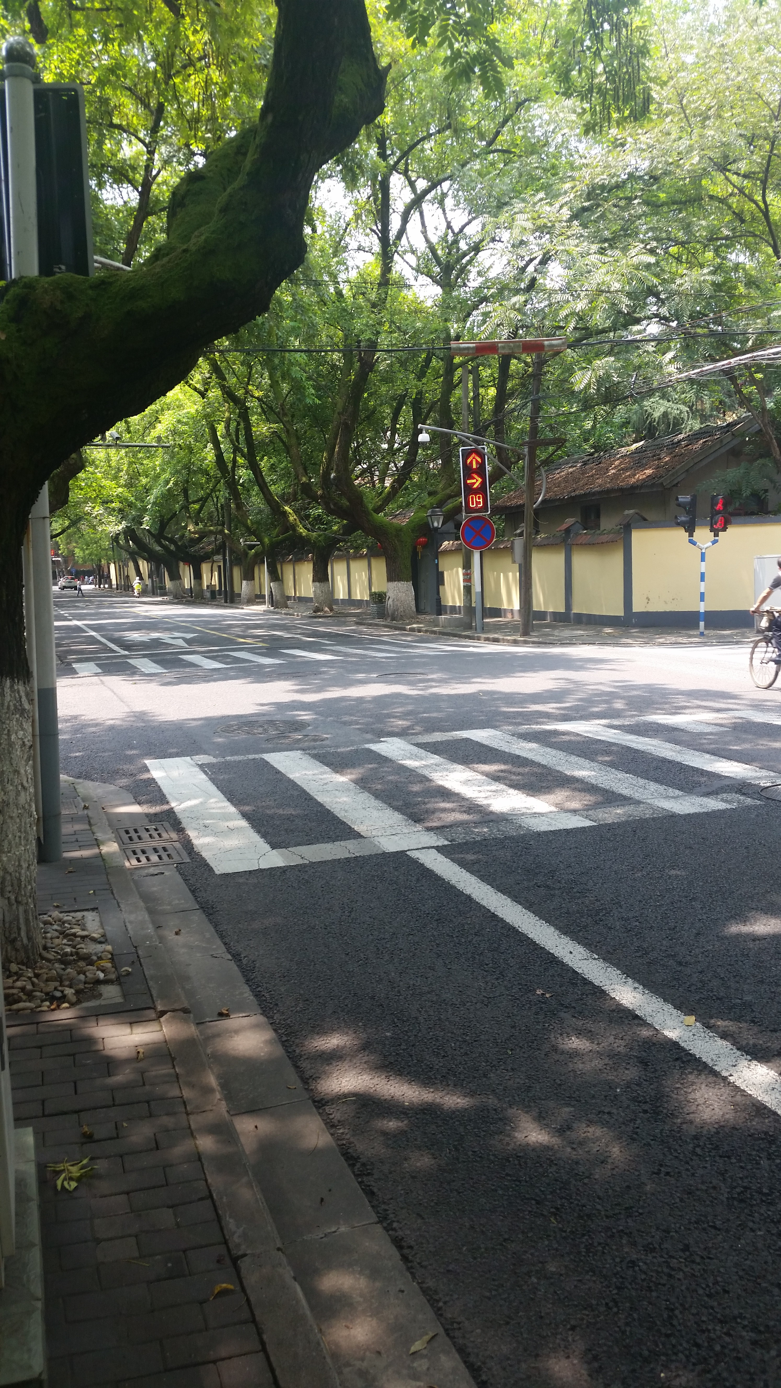 yihe road, nanjing